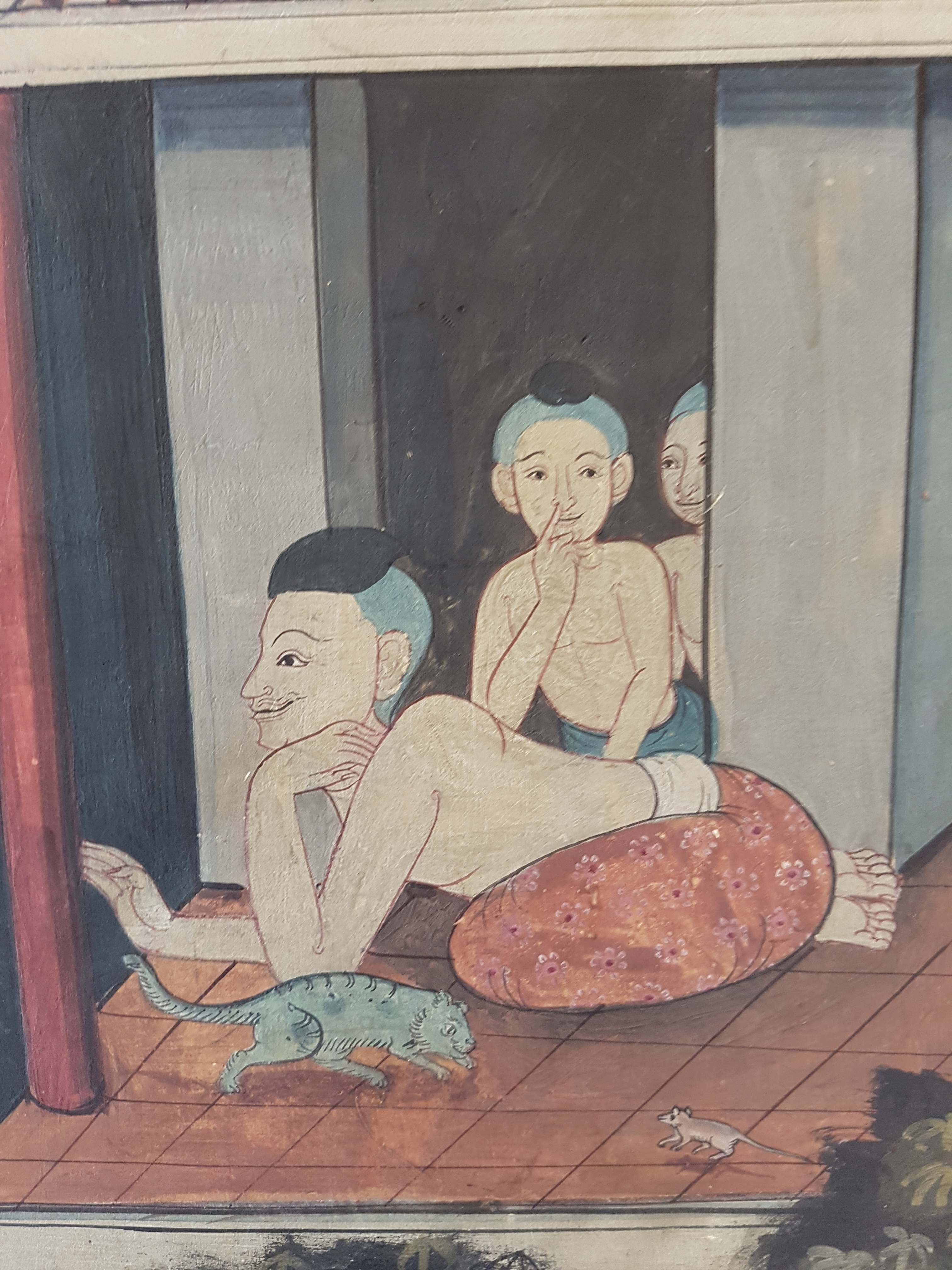 Wat Pho, Bangkok, Thailand.